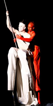 Mudfire is a show on stilts created by The Carpetbag Brigade Physical Theatre Company and performed at Junction 7.08